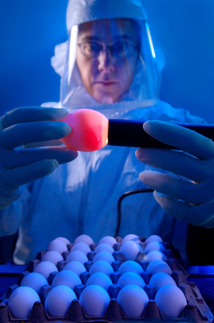 "Candeling" of embryonated chicken eggs before inoculation with virus suspensions